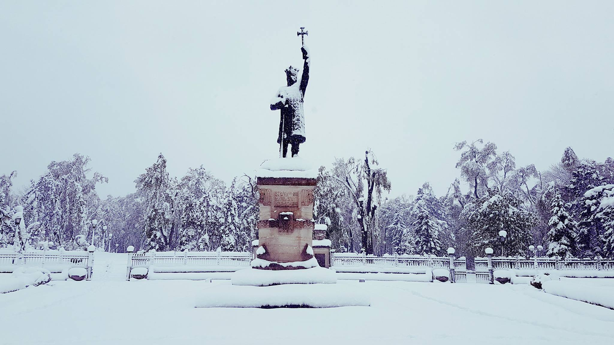 Stephen the Great's monument, one of the main landmarks of Chișinău, covered in snow during a snowfall in an unusual time of the year, April 2017